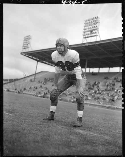 B.C. Lions football club, portraits, individual players, Keith Bennett VPL Accession Number: 84780V Date: July 10, 1954 Photographer / Studio: Jones, Art Content: Part of a series 84780+ (63 photos) Topic: Sports Sports teams Football Football players Stadiums Costume Sports uniforms Location: British Columbia - Vancouver Copyright Restrictions: Public Domain